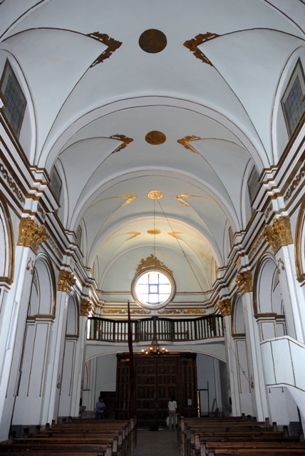 Cañada de Benatanduz